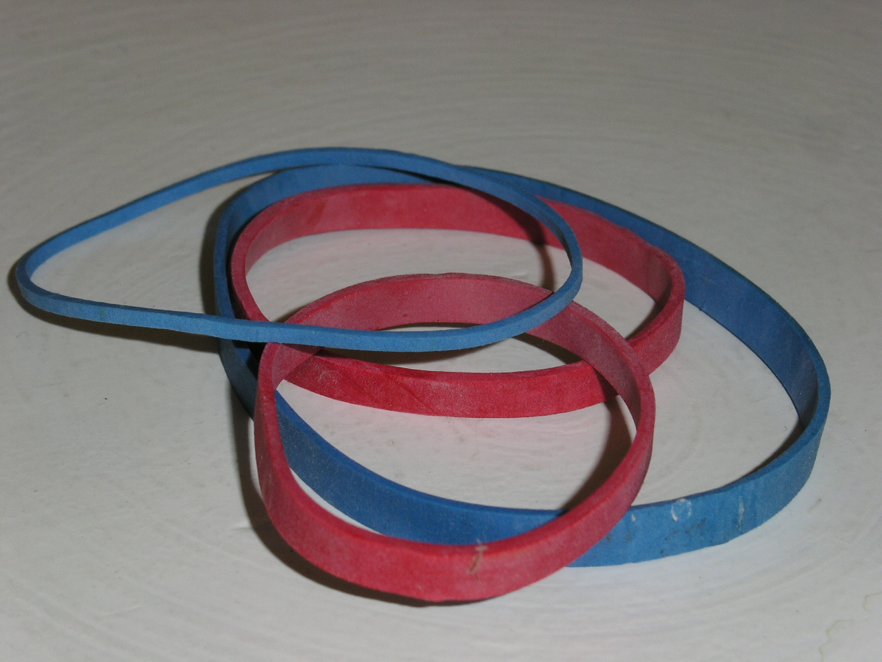 Photo of rubber bands